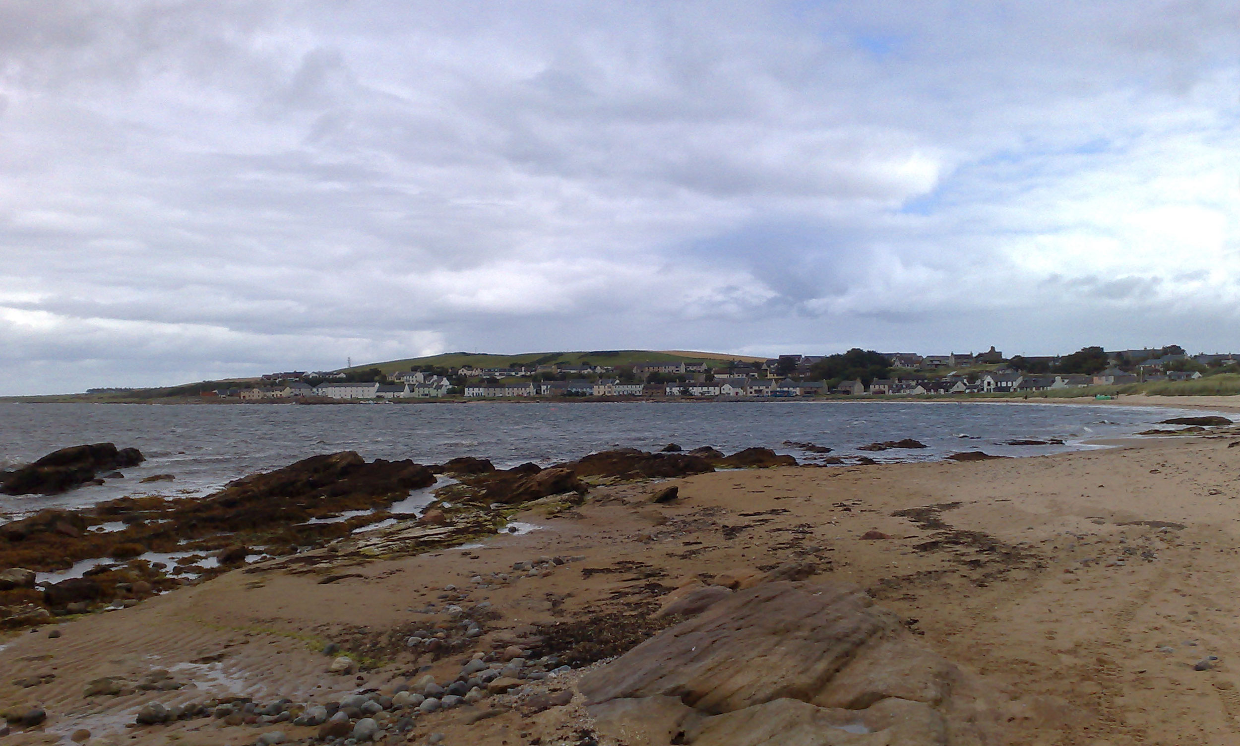 Portmahomack: a small fishing village in Easter Ross, Scotland. Situated 9 miles east of Tain on the northern coast of the Tarbat Peninsula